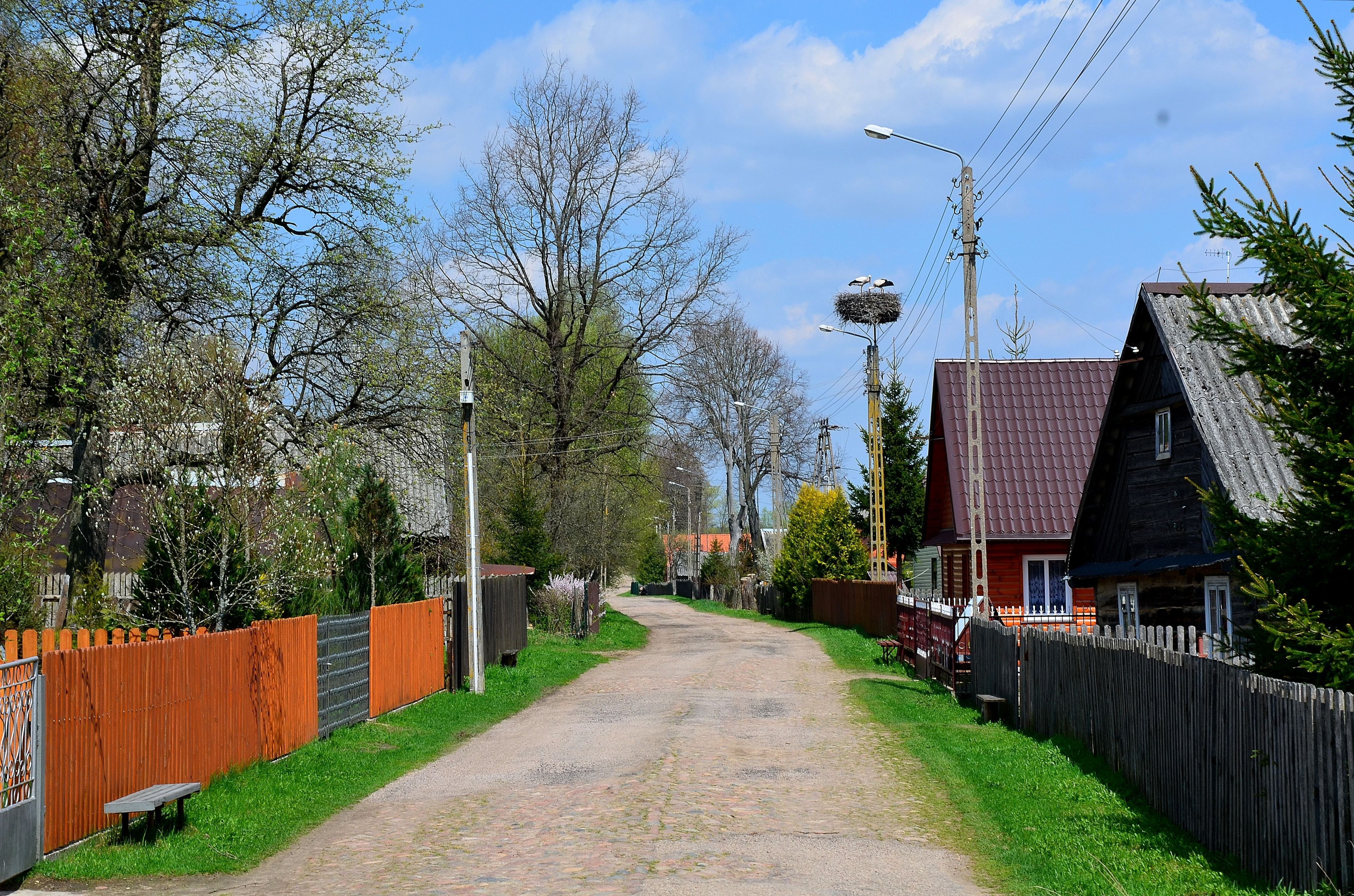 Świsłoczany (Gródek commune)